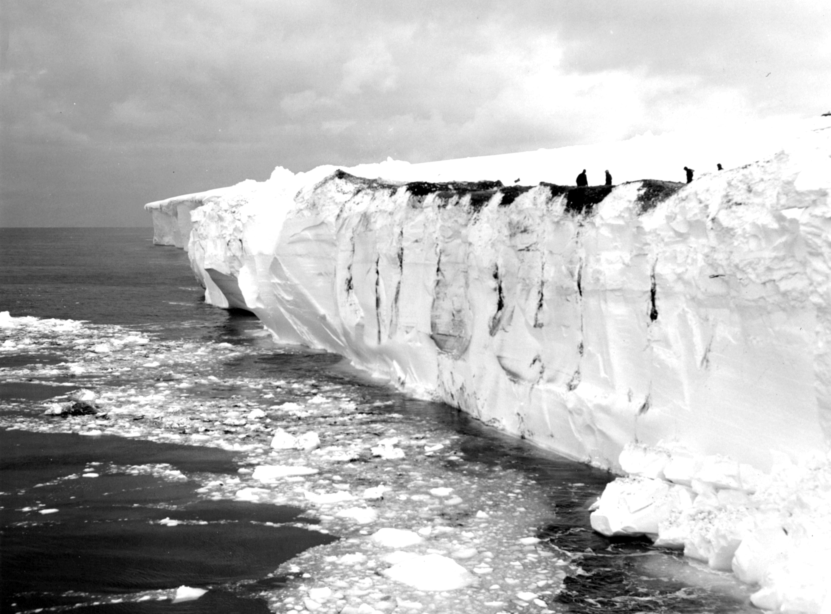 U.S. Navy Seabees can be seen near the edge of this ice barrier at Kainan Bay, Antarctica. Little America V, one of seven research stations built by the U.S. Navy in the 1950s, was located near this ice edge.